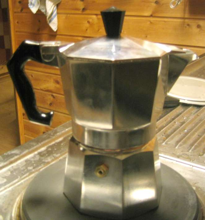 Coffee pot which makes moka coffee